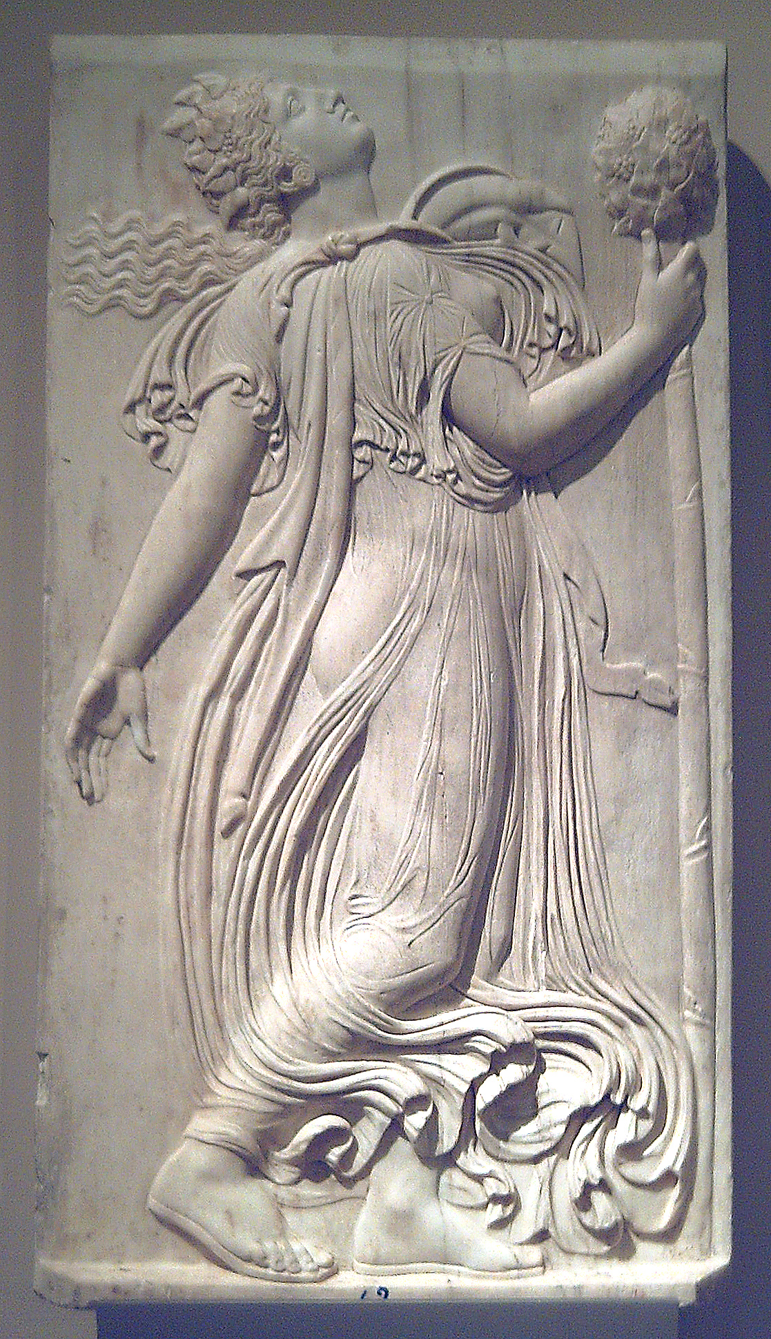 Roman relief showing a dancing maenad holding a thyrsus.